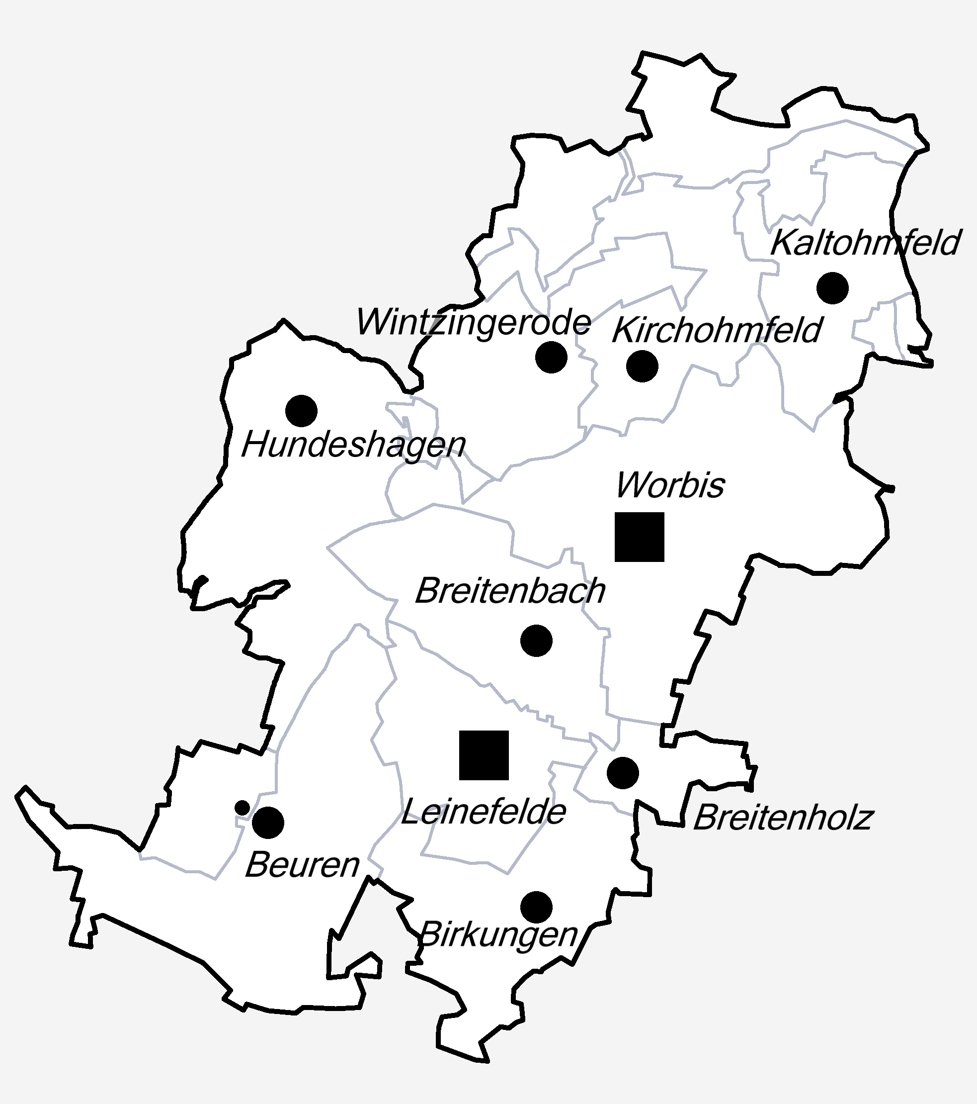 Locator map of the city Leinefelde-Worbis, Landkreis Eichsfeld.